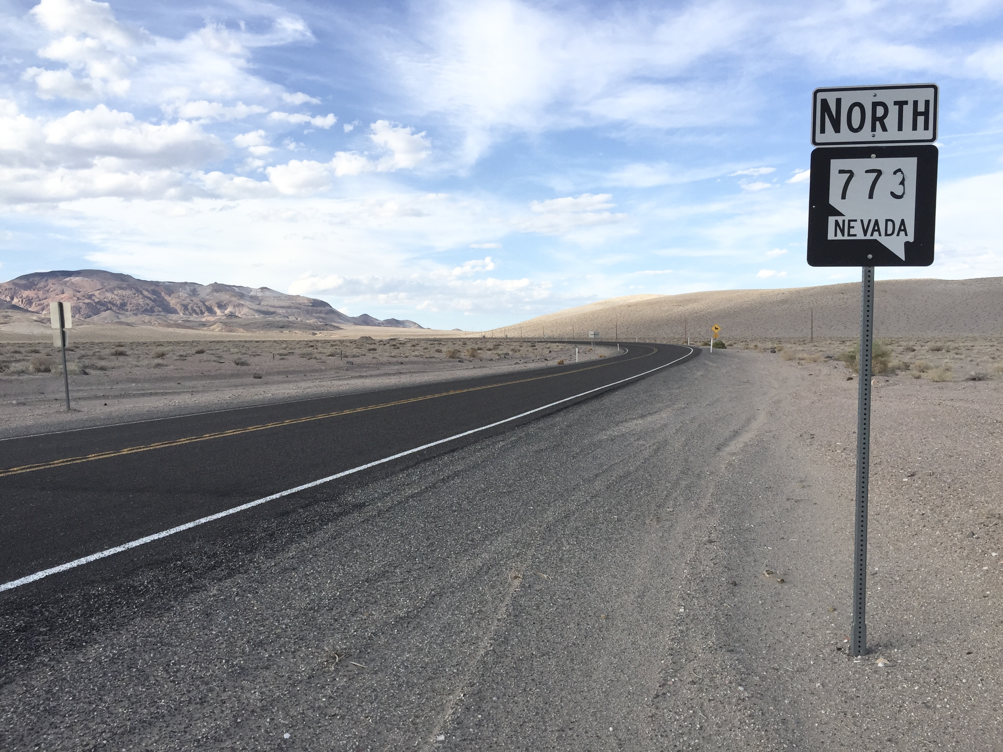 View north from the south end of Nevada State Route 773 (Fish Lake Valley Road) in Esmeralda County, Nevada